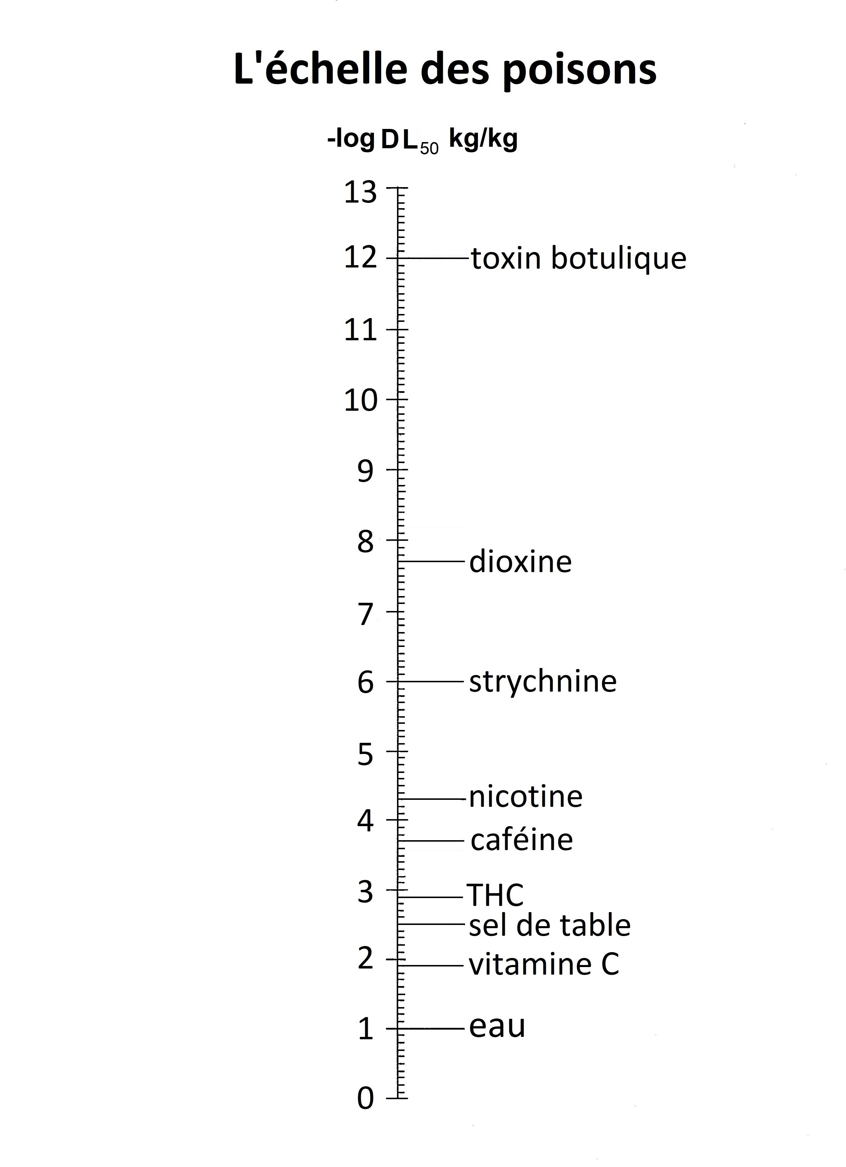 the lethale doses LD50 in a logarithmic kind of scale